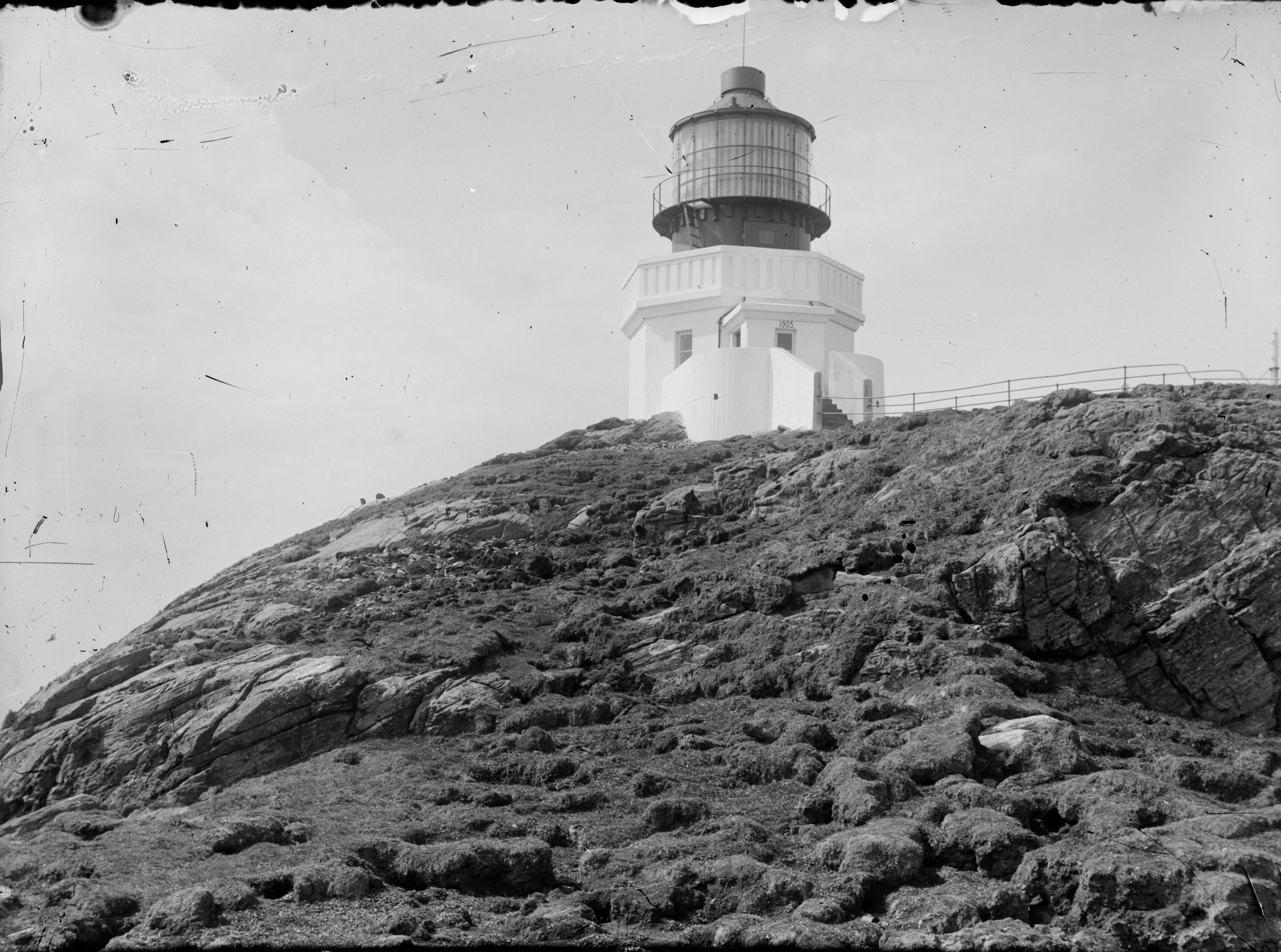 SFFf-1988007.0046 Photographer: Anders Folkestadås Date: ca 1900-1910. Medium: Glassplate negative Extent: 8 x 11 cm